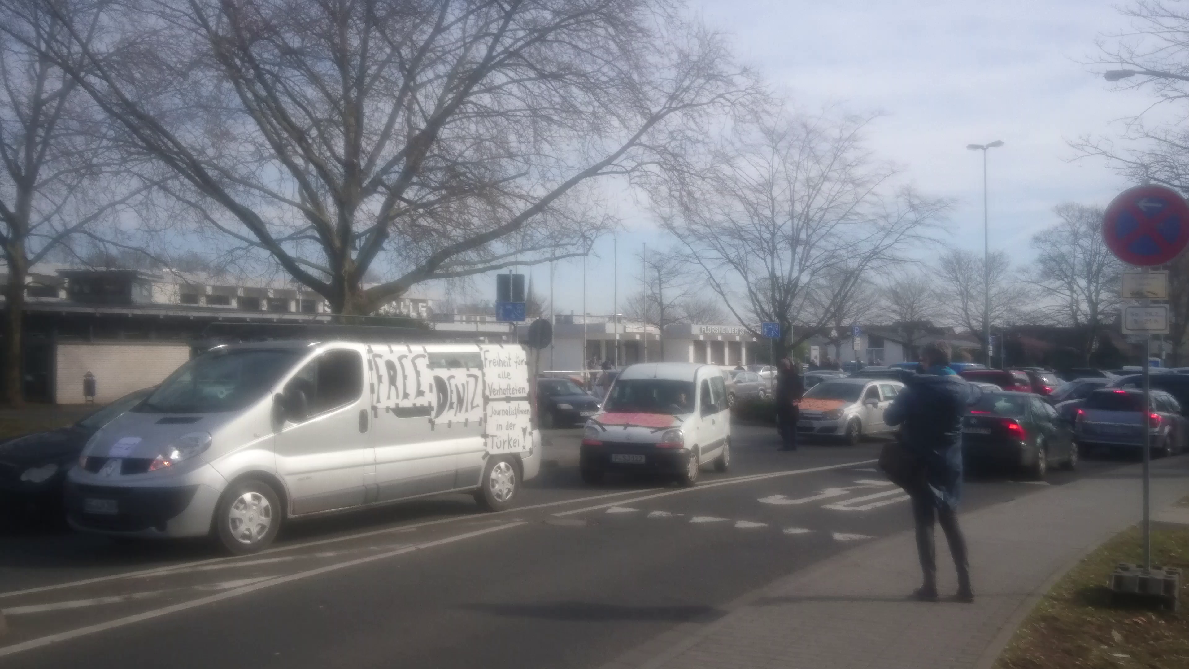 Autokorso in support of Deniz Yücel in his hometown Flörsheim at 25 february 2017 after his arrest in turkey, days before his hearing